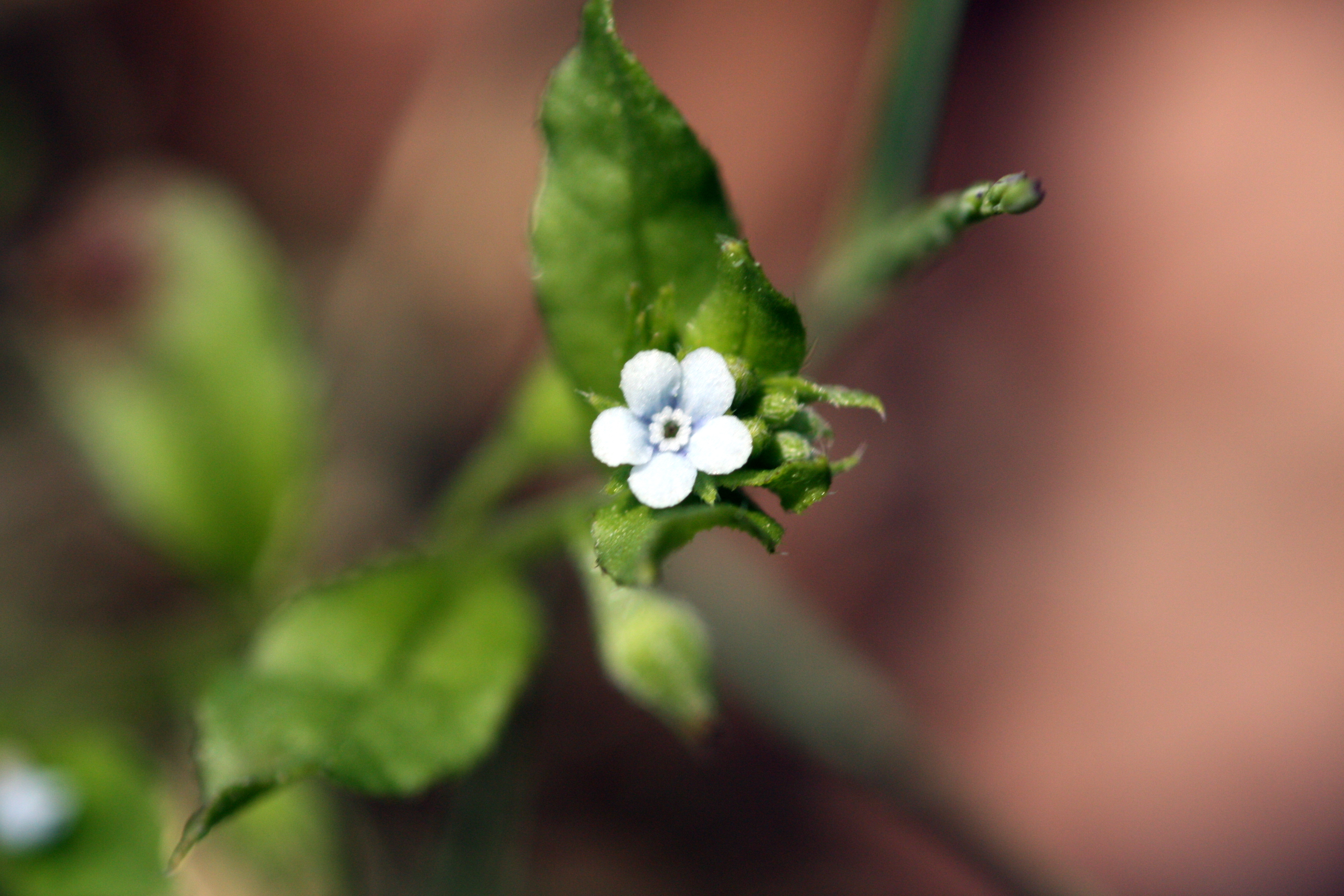 Bothriospermum tenellum